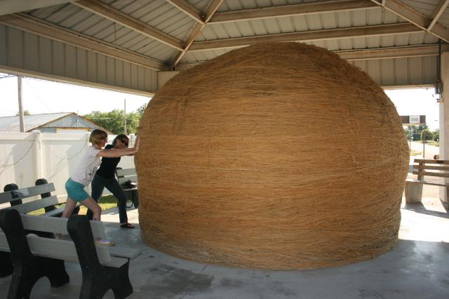 Photograph of Ball of Twine from Cawker City Kansas taken by me at public display with permission of those in the photograph. 2013-07-09